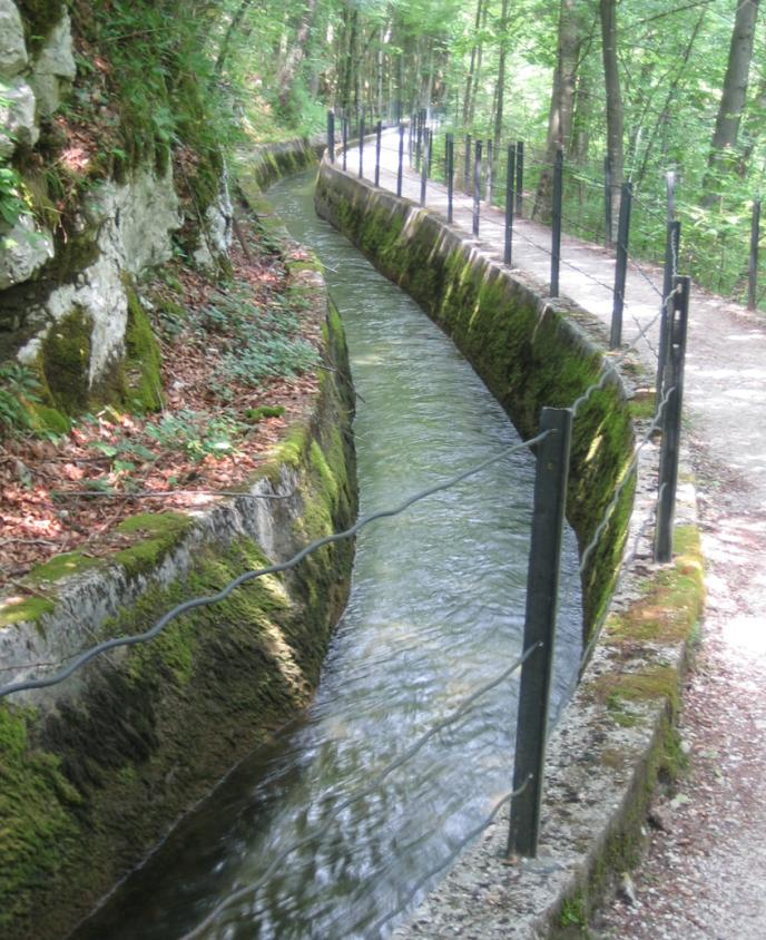 Rake, a stream that generated power for a large wheel pumping the water from mercury mines in Idrija, Slovenia. photo:Ziga 08:21, 12 August 2006 (UTC)